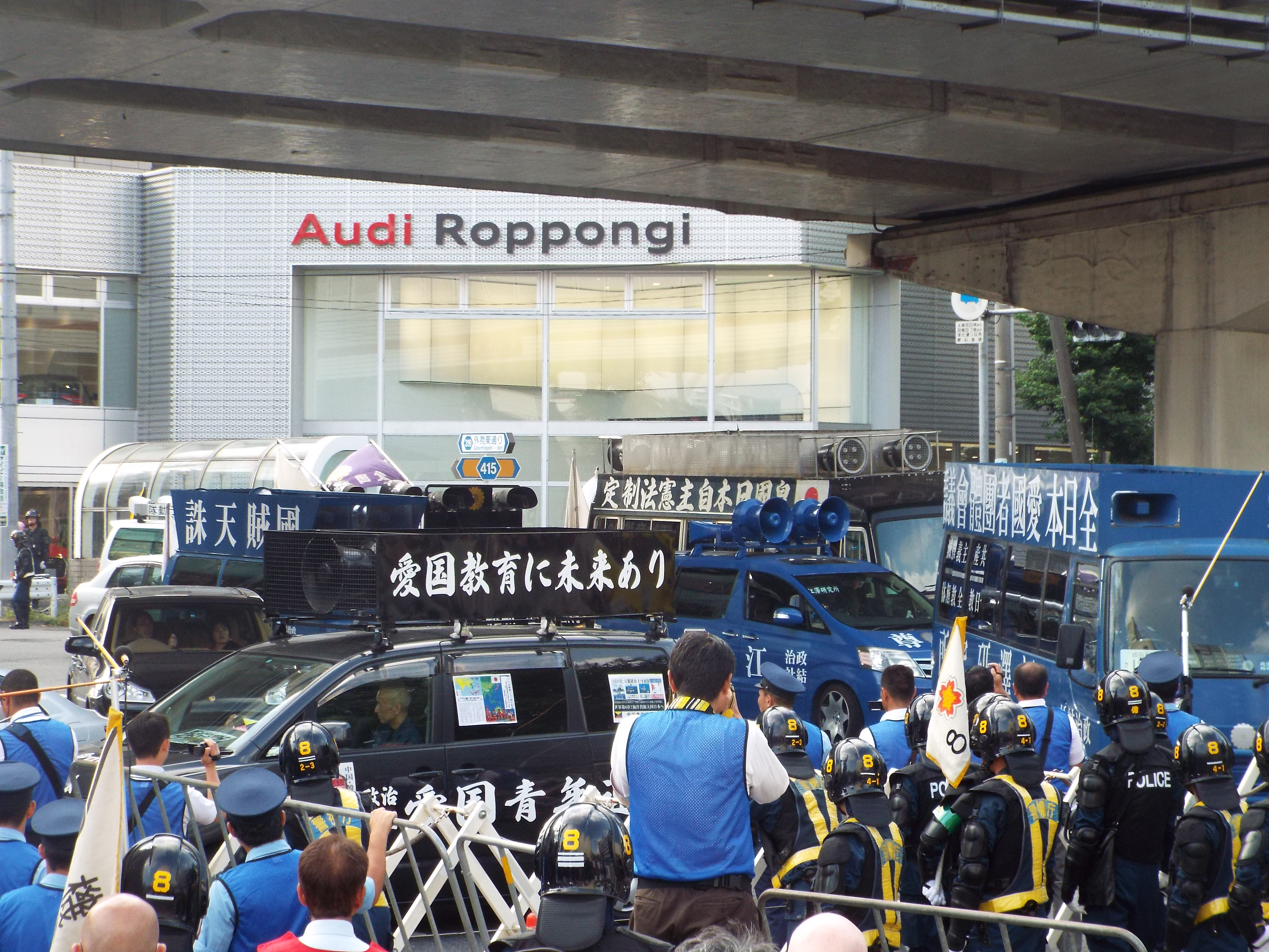 2015 August 9, 反ロシアデー ("anti-Russia day"), protest by extreme right-wing groups in front of Iikura crossing (飯倉交差点) leading to the the Russian Embassy.